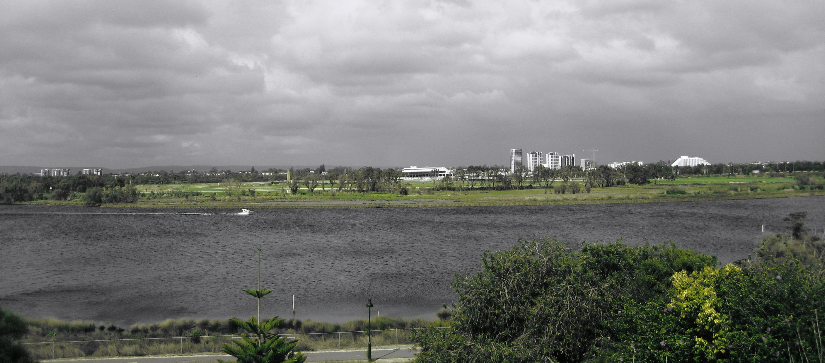 Belmont Racecourse, Perth, Western Australia (image colouration problem)